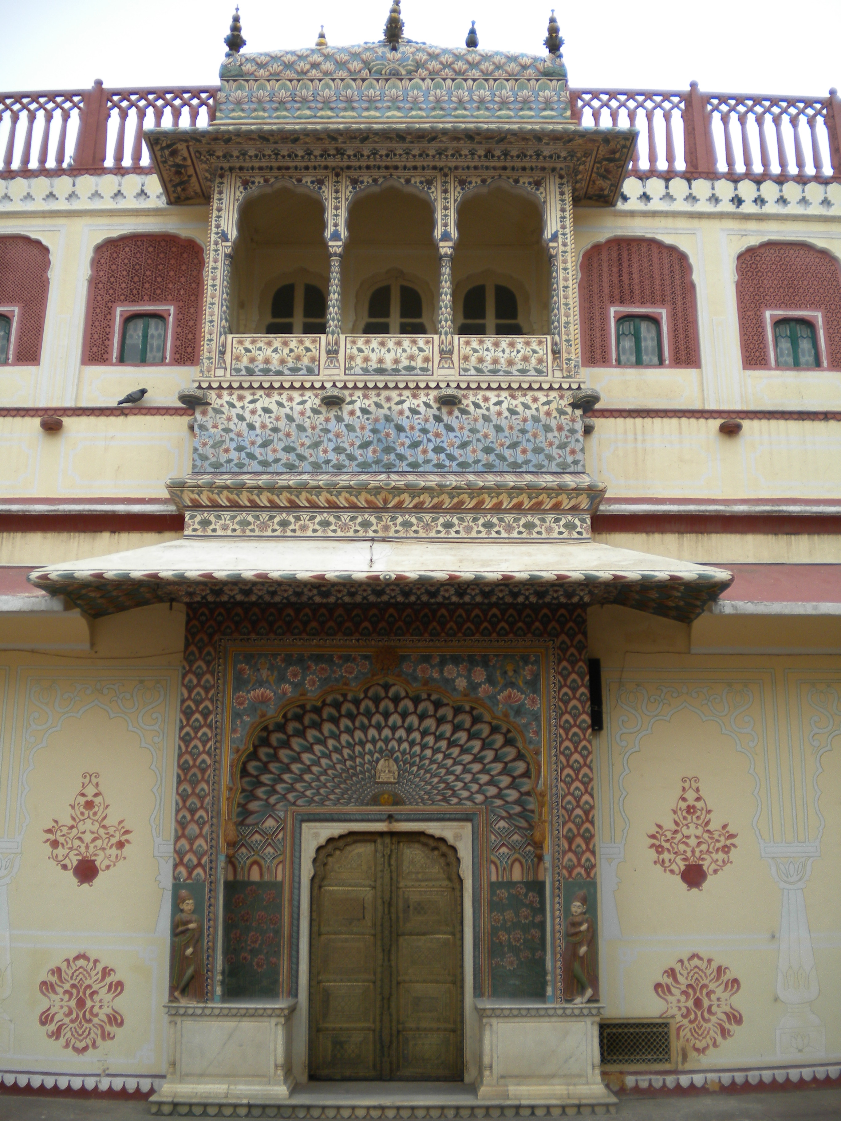 The Lotus Gate one of the four gates at Pitam Niwas Chowk of City Palace, Jaipur. The four gates in this courtyard represent four seasons. This gate (Lotus Gate) represents Summer. ജയ്പൂർ സിറ്റി പാലസിലെ പീതം നിവാസ് ചൗക്കിലെ നാലു കവാടങ്ങളിലൊന്നായ ലോട്ടസ് ഗേറ്റ്. ഇവിടത്തെ നാലു വാതിലുകൾ നാല്‌ ഋതുക്കളെ പ്രതിനിധീകരിക്കുന്നു. വേനൽക്കാലത്തെയാണ് ലോട്ടസ് ഗേറ്റ് പ്രതിനിധീകരിക്കുന്നത്.